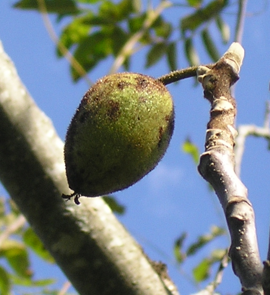 Nut on a 20-year-old tree in Nova Scotia. Bare root stock from New Brunswick.